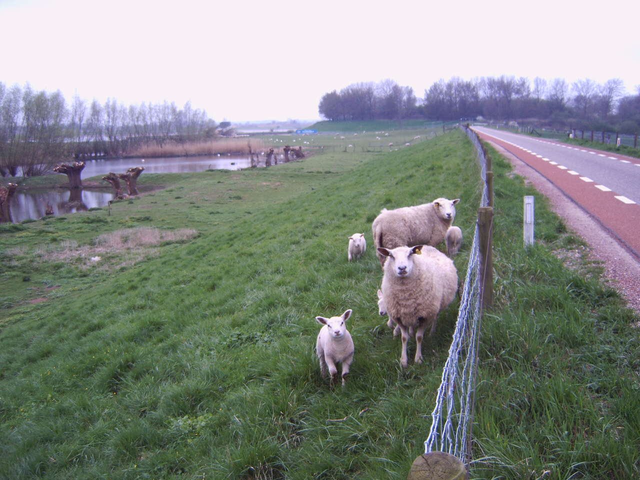 Fort Honswijk, on the north bank of the river Lek, near Culemborg, the Netherlands, part of the Nieuwe Hollandse Waterlinie. Camouflaged fortress in the back, troops (disguised as sheep) in the foreground.